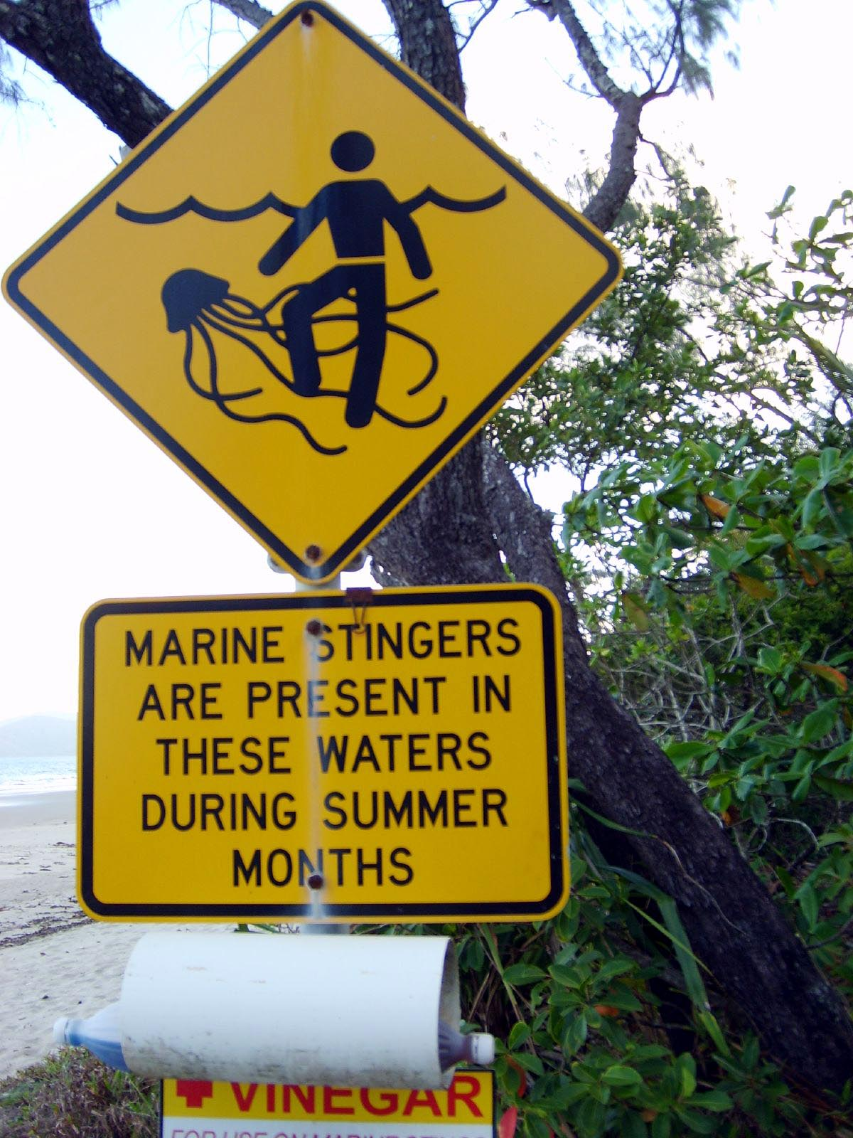 Port Douglas, Queensland - The Sign